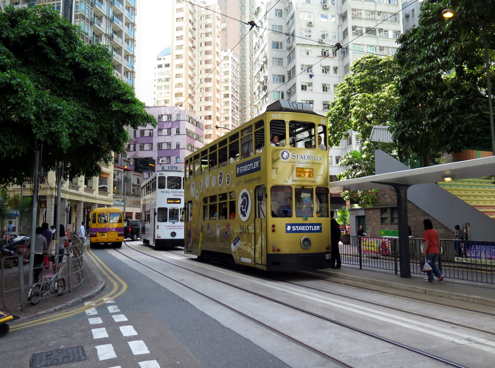 Hong Kong Tram in Johnston Road